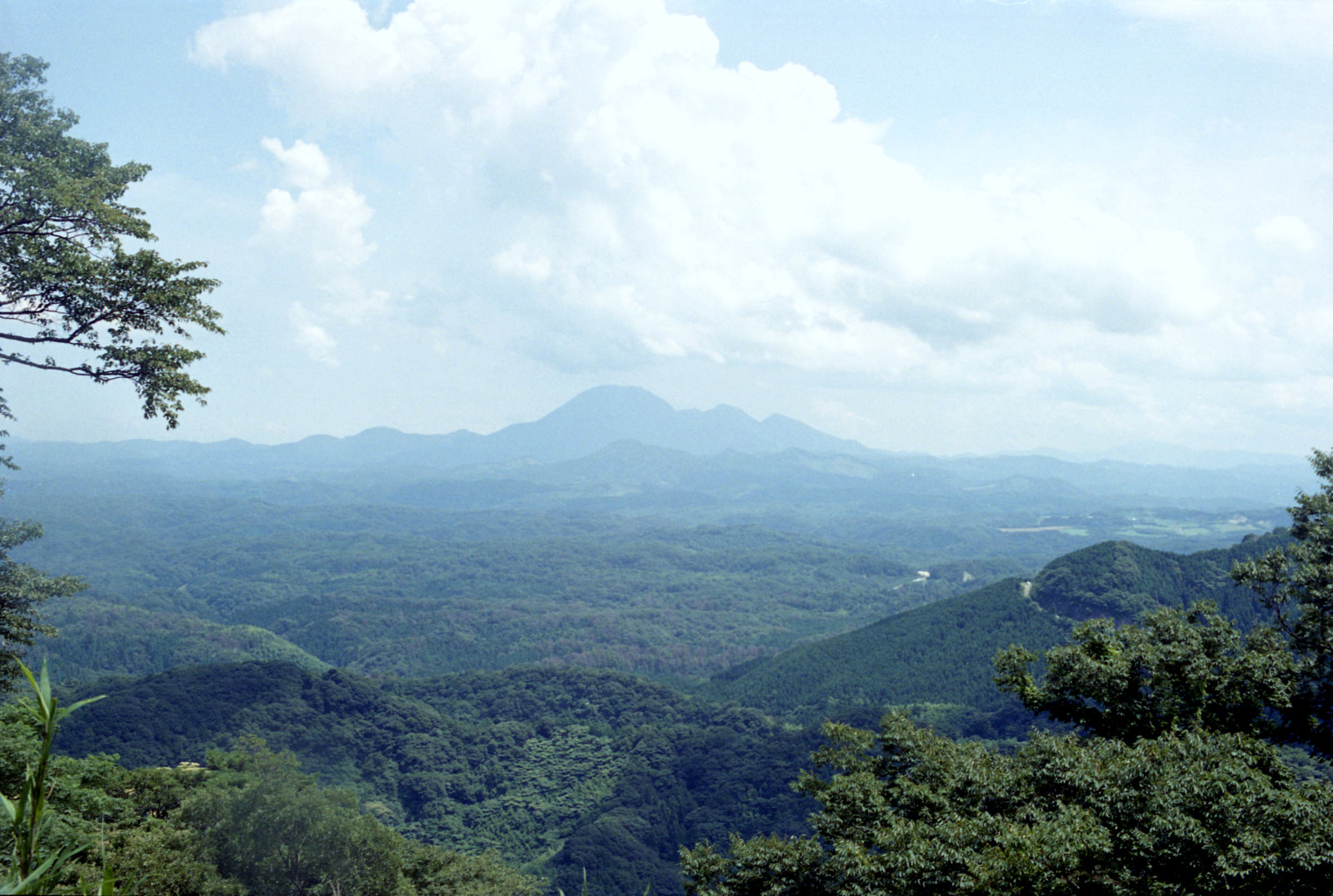 Looking the ENE from Yamabuki castle site. Mount Sanbe in the center back.